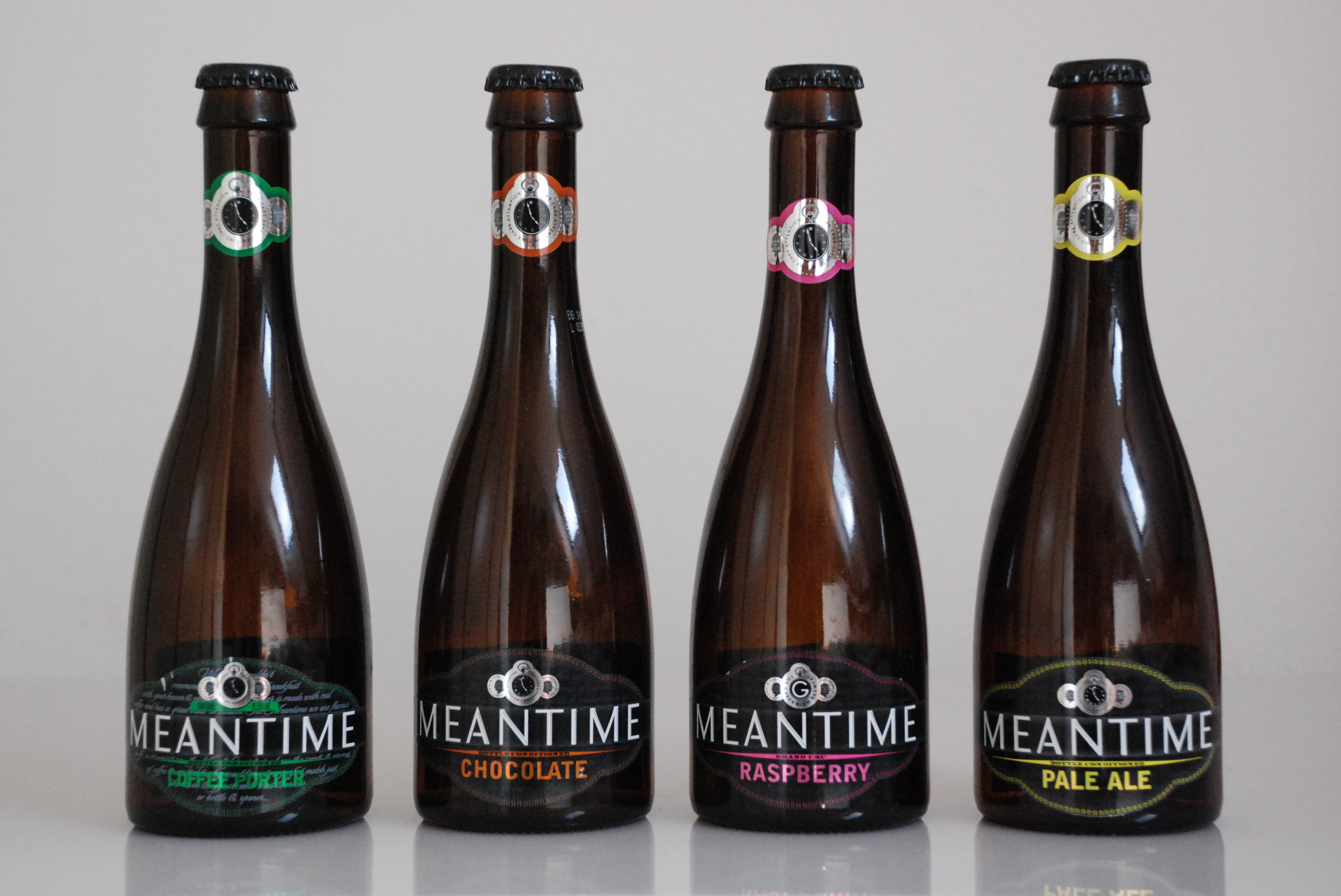 Four empty bottles of beer from Meantime Brewery. From left: Coffee Porter, Chocolate, Raspberry, Pale Ale.